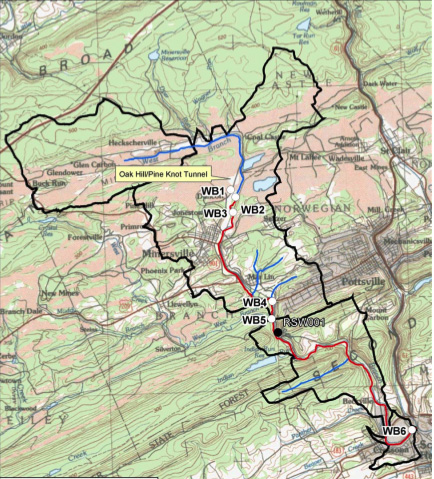 Topo map of West Branch Schuylkill River watershed